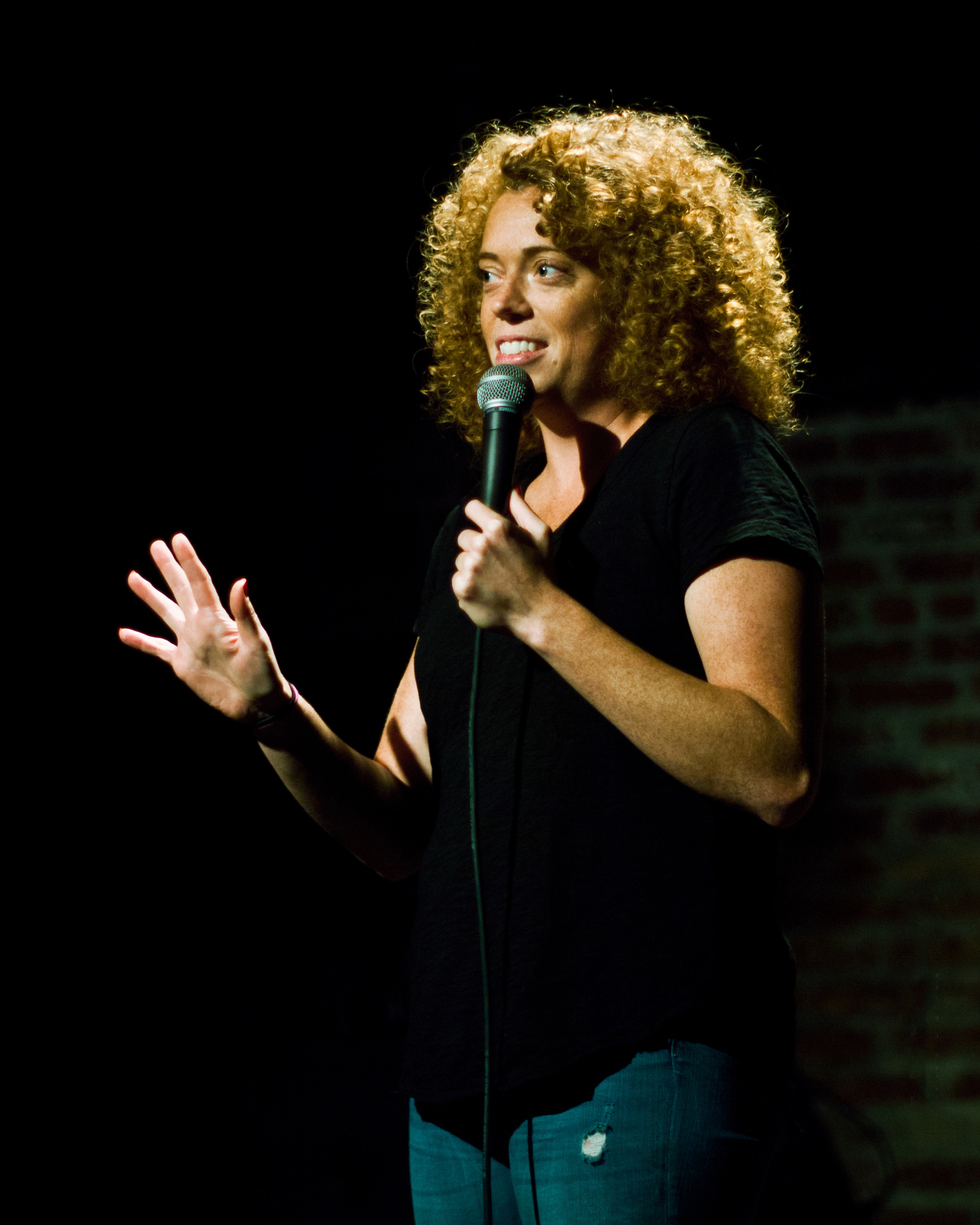 Michelle Wolf performing at Comedians You Should Know in Brooklyn on Sept 21 2016